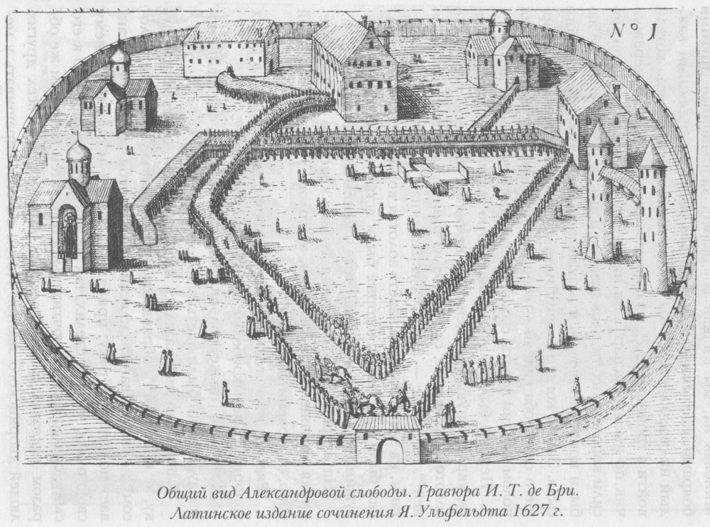 Alexandrov Kremlin, etching by Theodor de Bry (d. 1598), published by Jacob Ulfeldt in 1627.